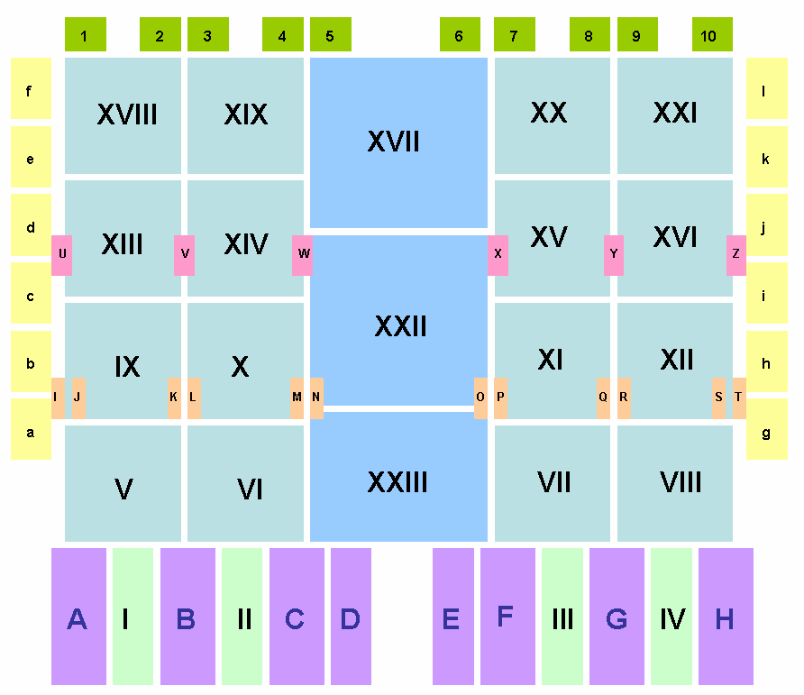 Diagram of scenes of Cathedral of Oviedo Altarpiece